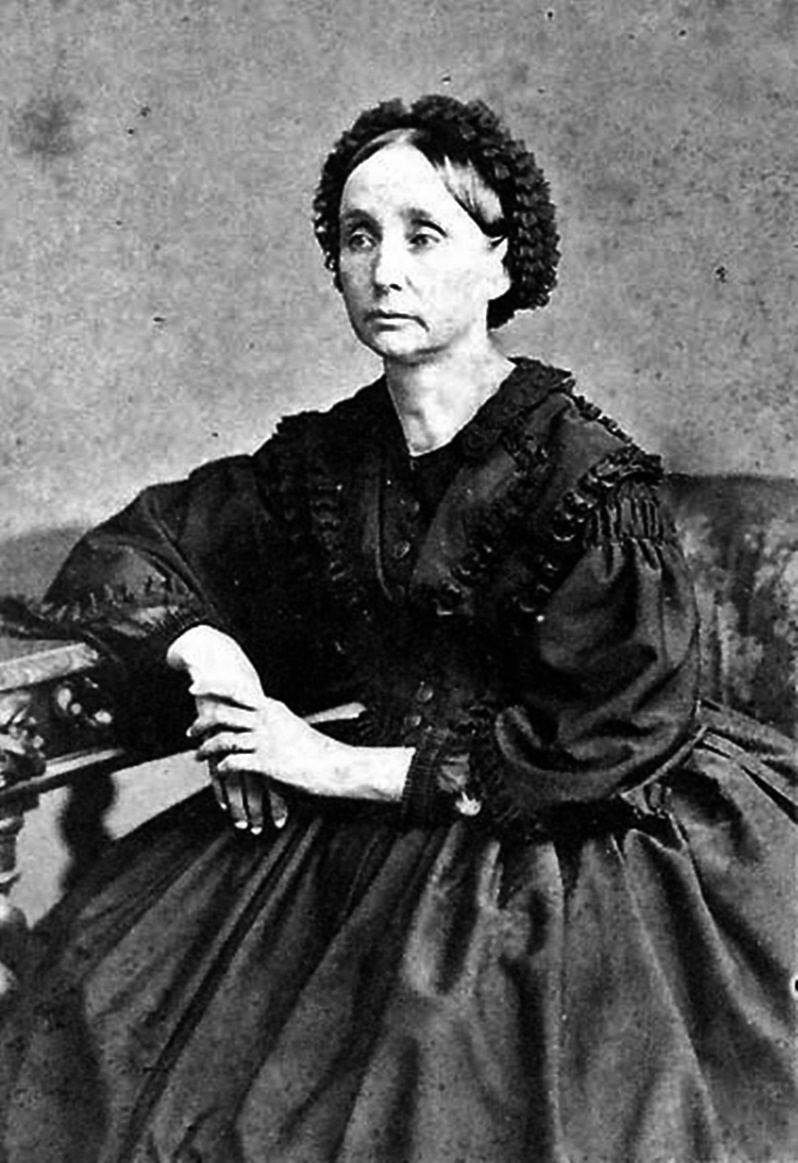 Maria Theresa of Austria (1816–1867), Queen of the Two Sicilies